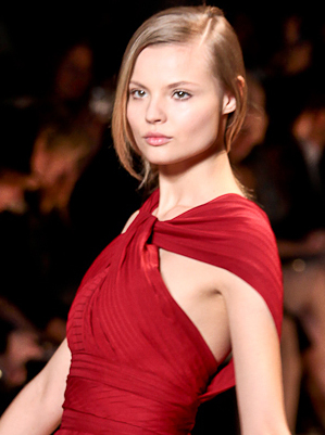 Photographed by Simon Ackerman at Elie Saab, Paris Fashion Week Fall 2011